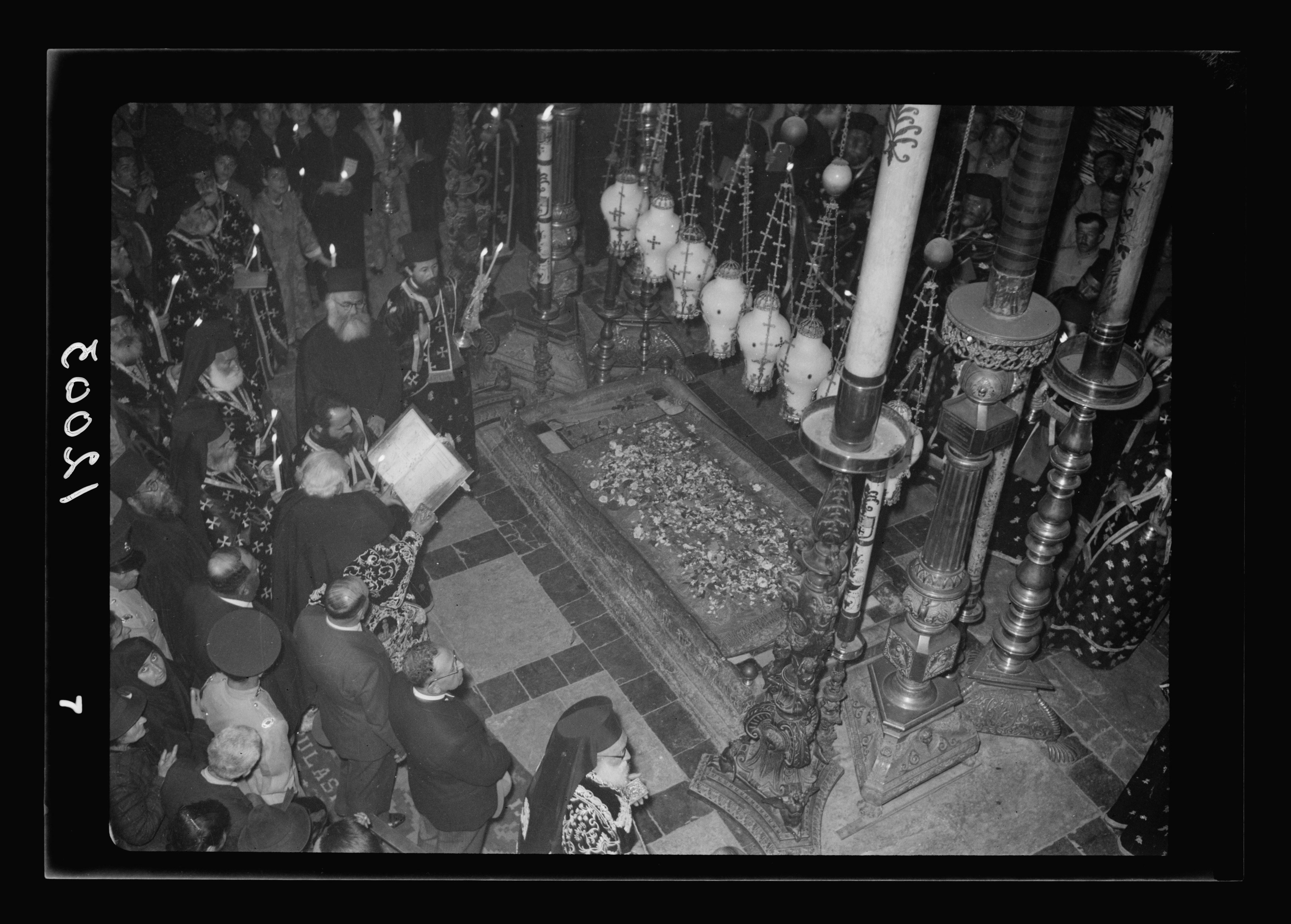 Title: Calendar of religious ceremonies in Jer. [i.e., Jerusalem] Easter period, 1941. Greek Good Friday Abstract/medium: G. Eric and Edith Matson Photograph Collection Physical description: 1 negative